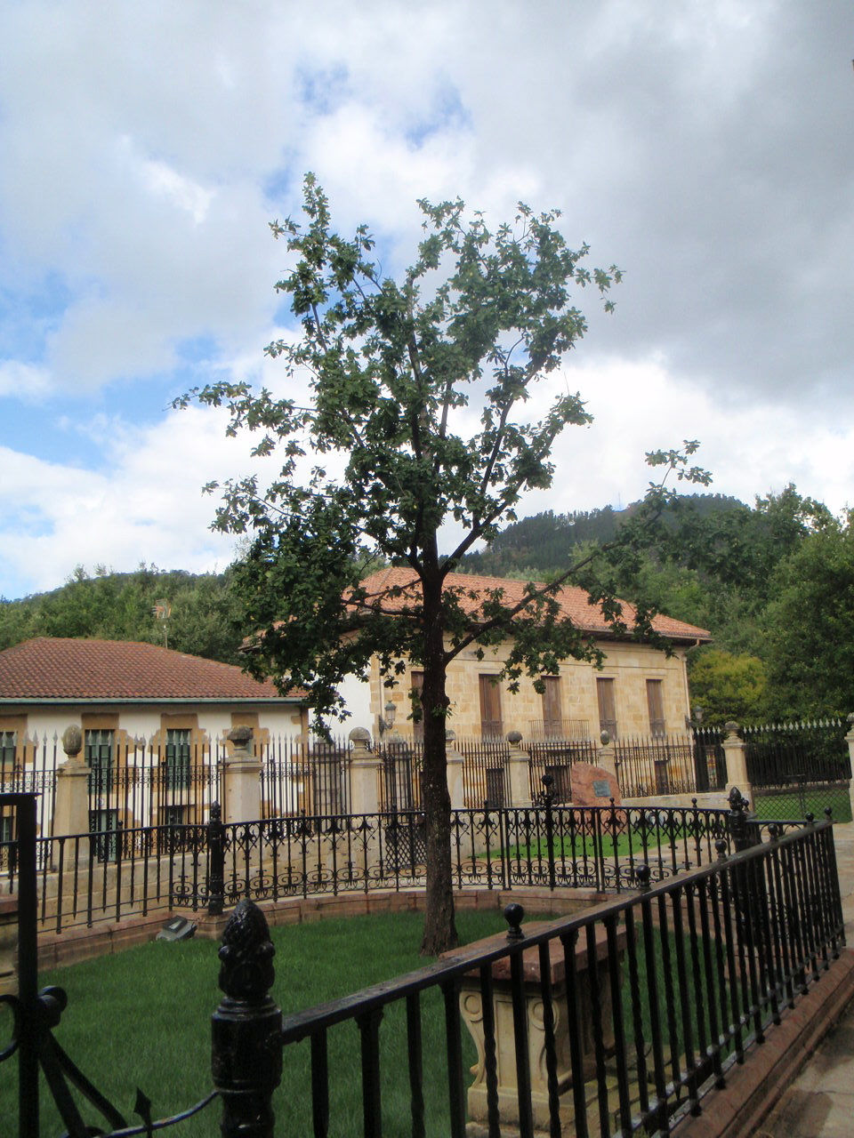 From Guernica, the new oak as of aug 2012